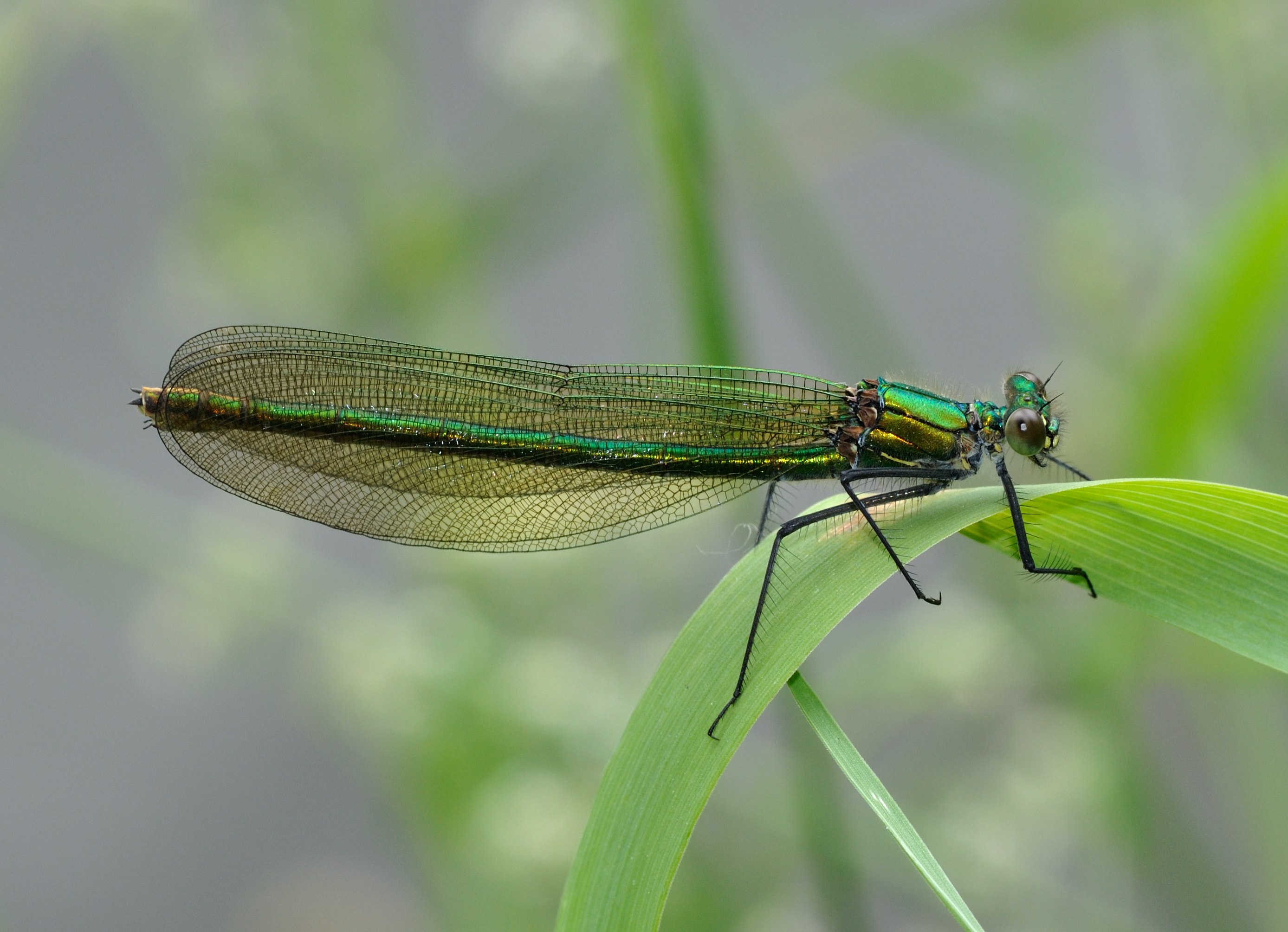 Female Banded Demoiselle (Calopteryx splendens) near the old airstrip, Frankfurt, Germany.